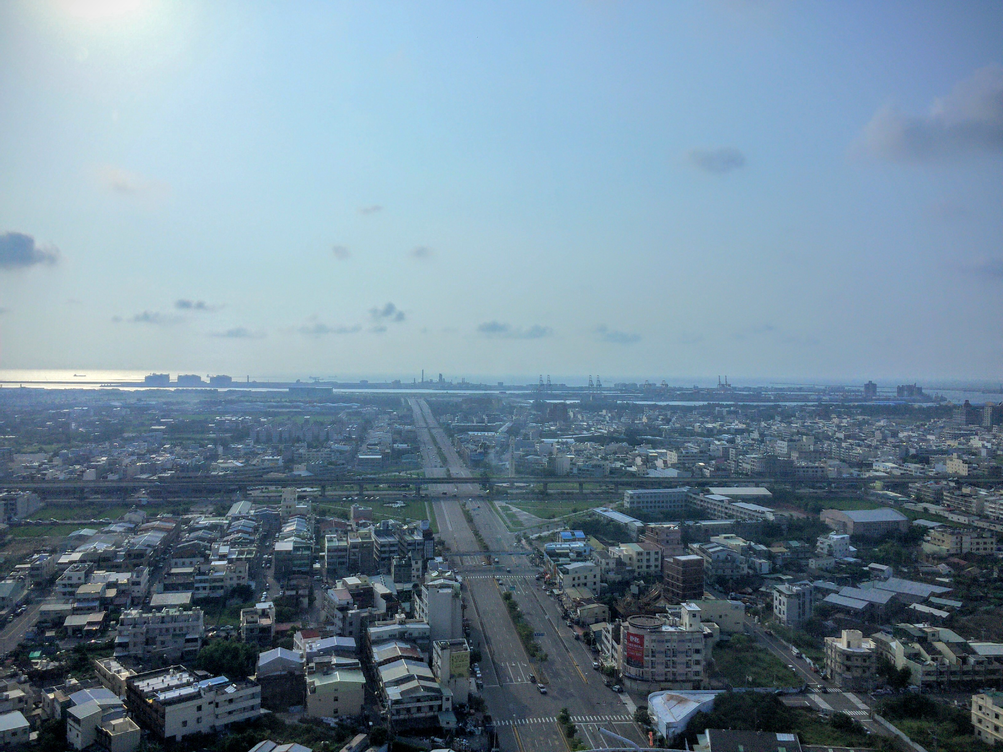 West view from the top of Tungs' Taichung MetroHarbor Hospital.